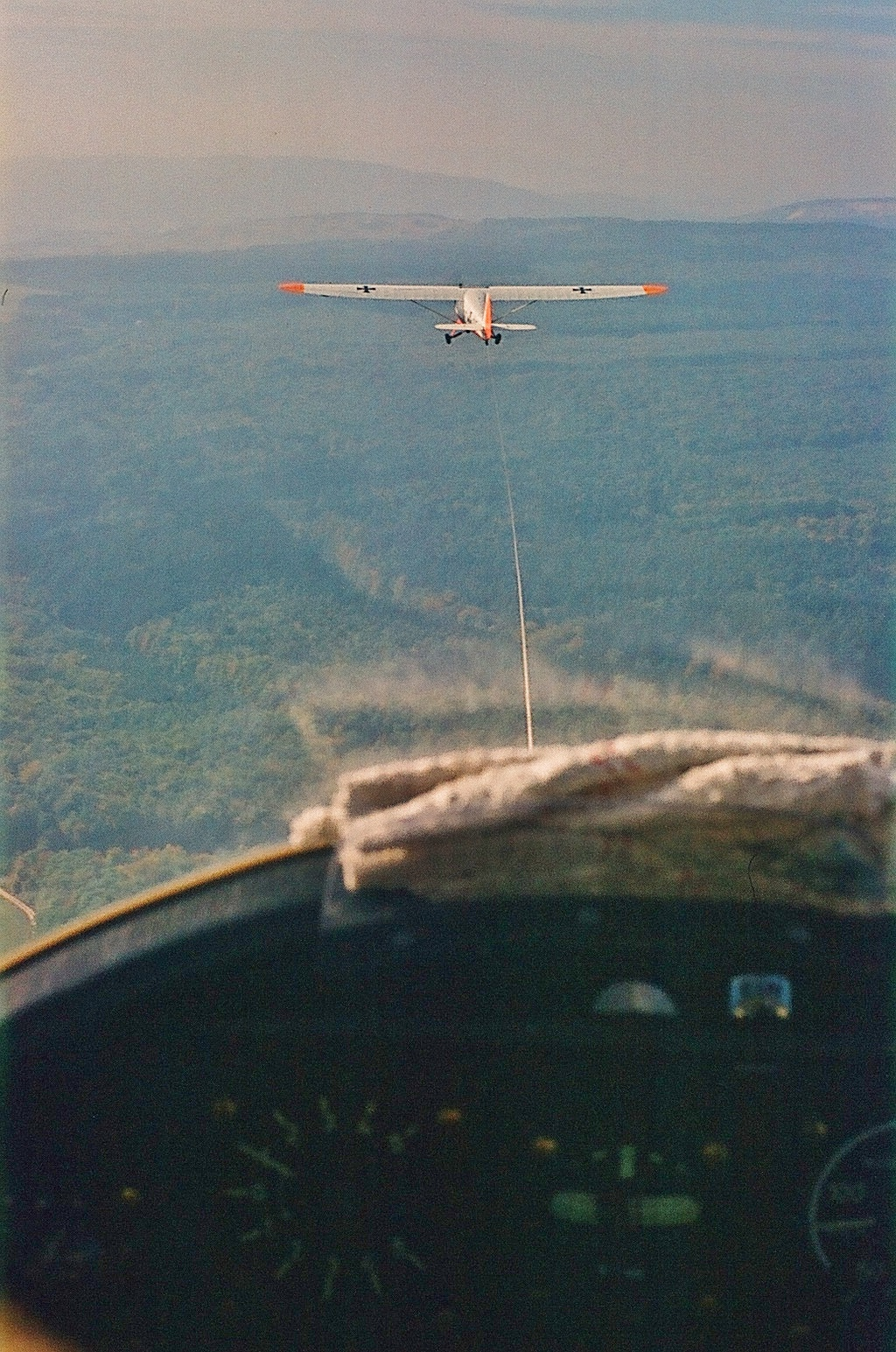 Pützer Elster B (Luftwaffe 97+05) used as tow-plane from Pferdsfeld air base (EDSP) (closed 1997).